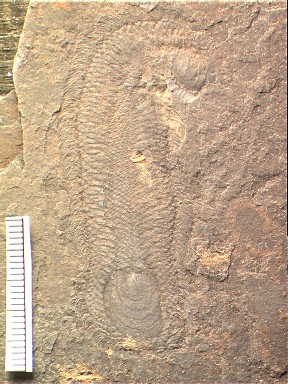 Halkieria evangelista from the Lower Cambrian Sirius Passet, North Greenland.